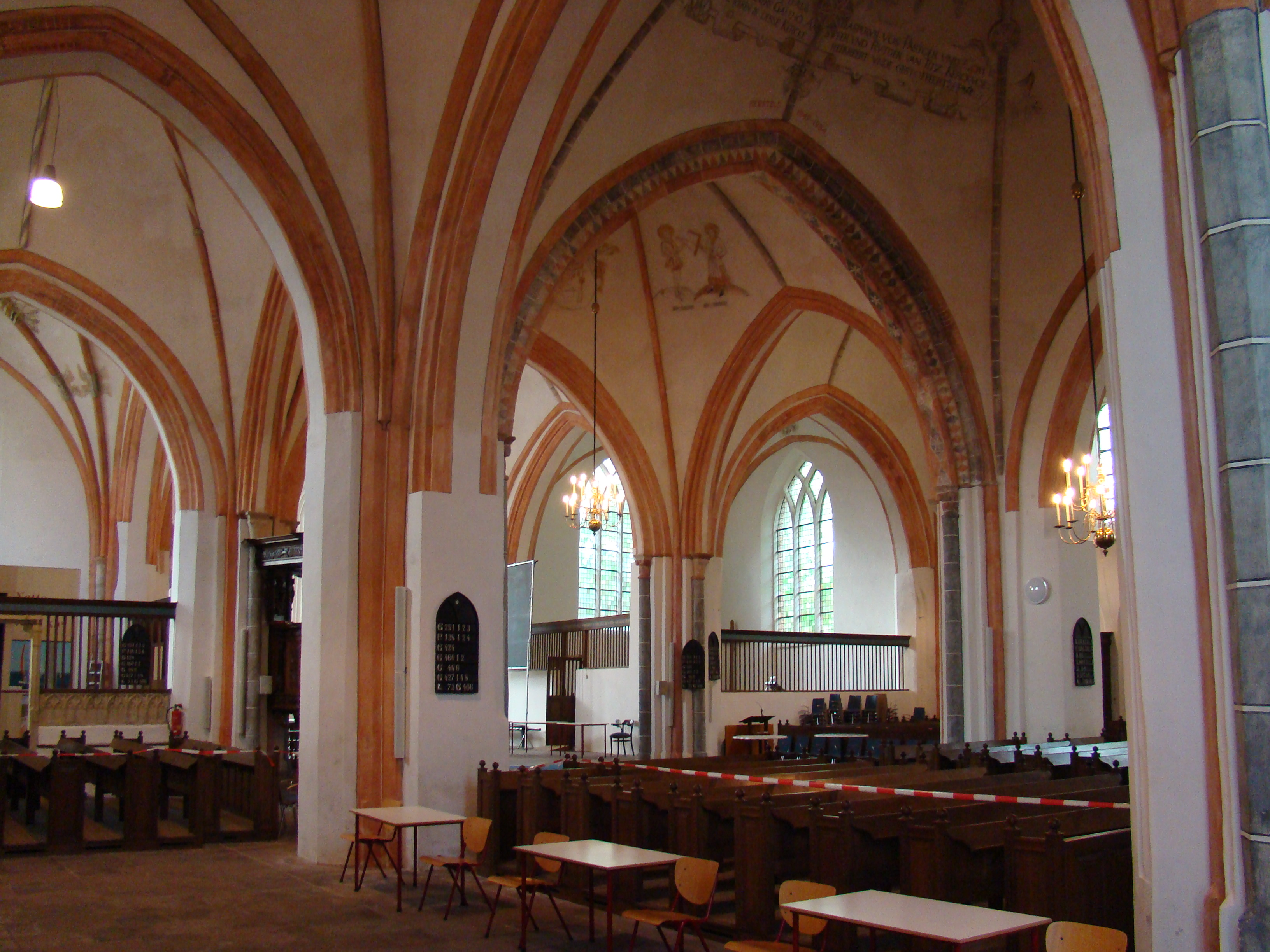 Inside Nicolaichurch in Appingedam, Netherlands